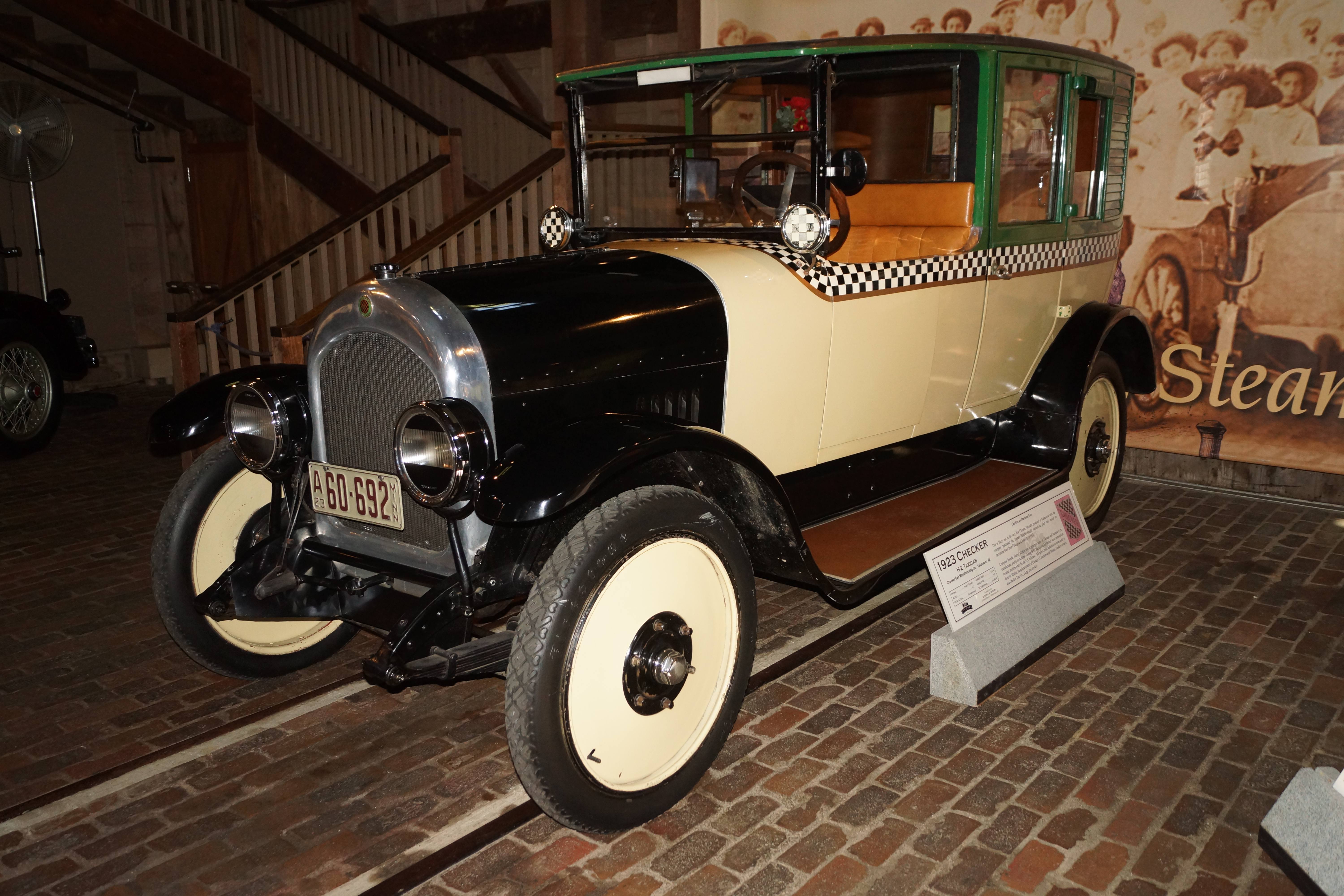 Gilmore Car Museum 6865 W Hickory Rd. Hickory Corners, Michigan May 2017 Back in February I was told I had to schedule some vacation before July, At about the same, an article appeared on the Hemmings blog about the first ever joint meeting of AACA (Anitique Automobile Club of America) and CCCA (Classic Car Club of America) in Auburn, Indiana. It was too good of opportunity to pass up, two car clubs and all of the automotive history packed into Auburn, Indiana. Since I was driving from Mnnesota, I made a slight detour to see the Gilmore Car Museum on the way to Indiana. Link to Hemmings Article: Click here for more car pictures at my Flickr site. Or here for my Car Crazy Tumblr site. Or on Twitter @DVS1mn.